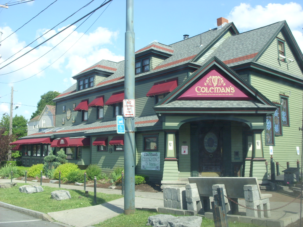 Tipperary Hill - Coleman's Authentic Irish Pub - Syracuse, New York